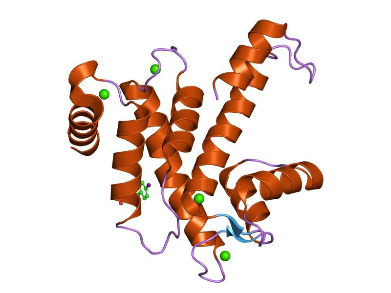 Cartoon representation of the molecular structure of protein registered with 1nx3 code.